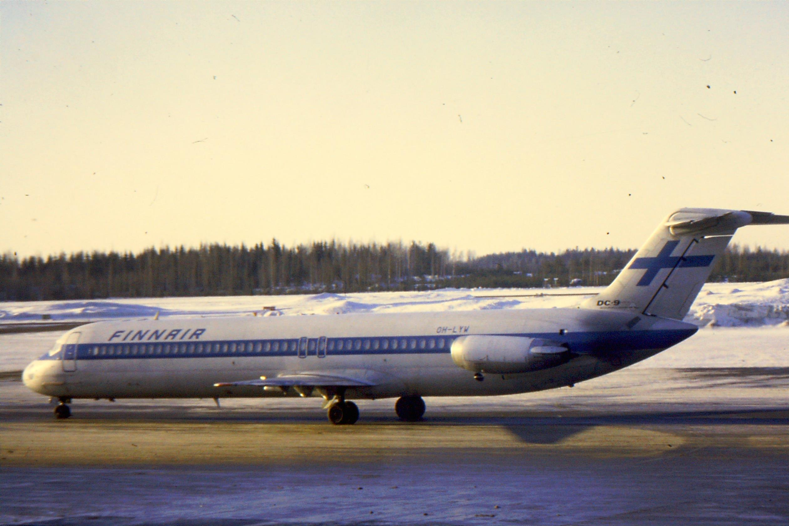 Caught in a low winter sun, this DC-9-50 ended up in Ukraine.